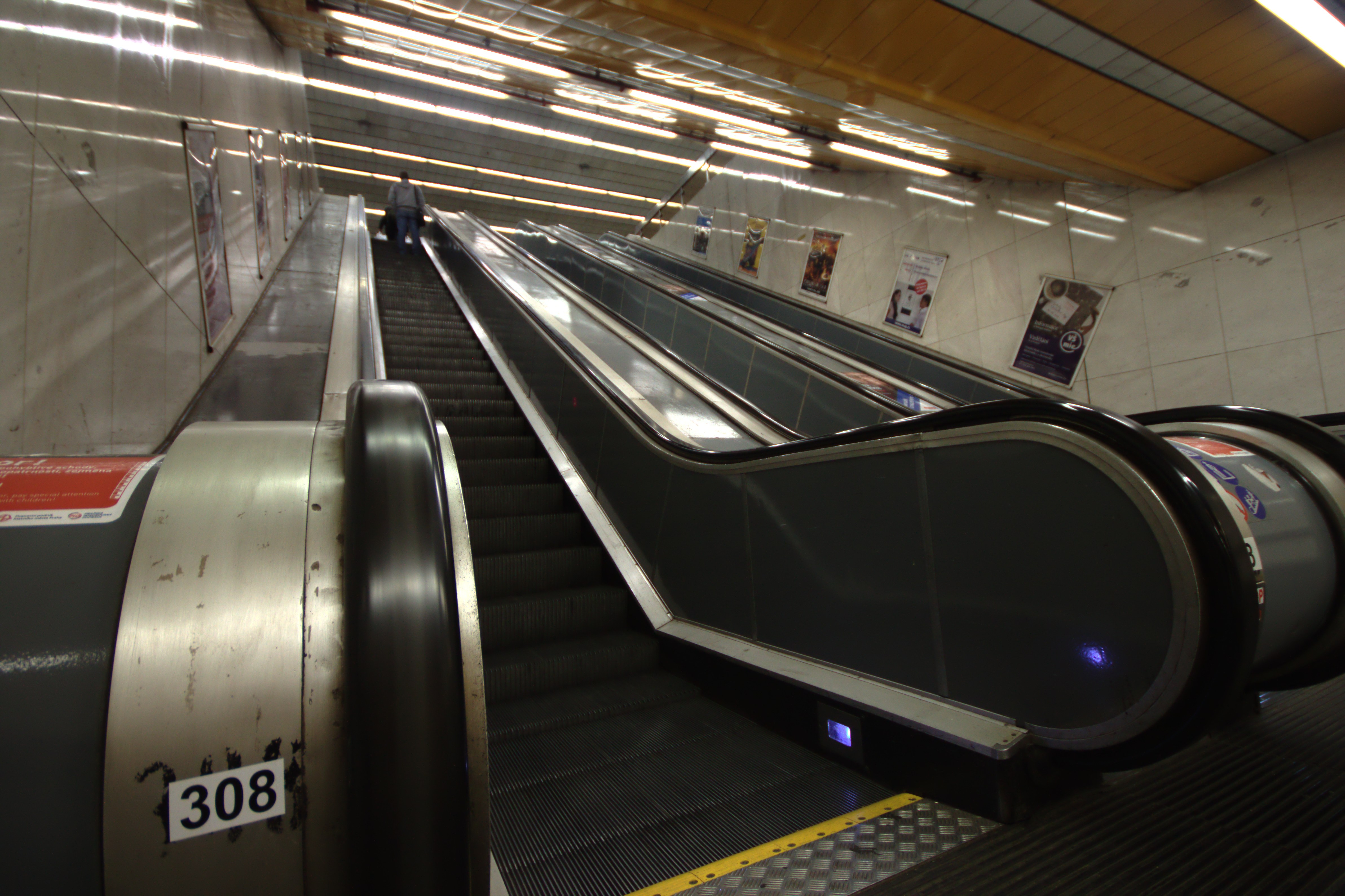 Escalators in the Palmovka metro station This photograph was taken with a DSLR from WMCZ's Camera grant.